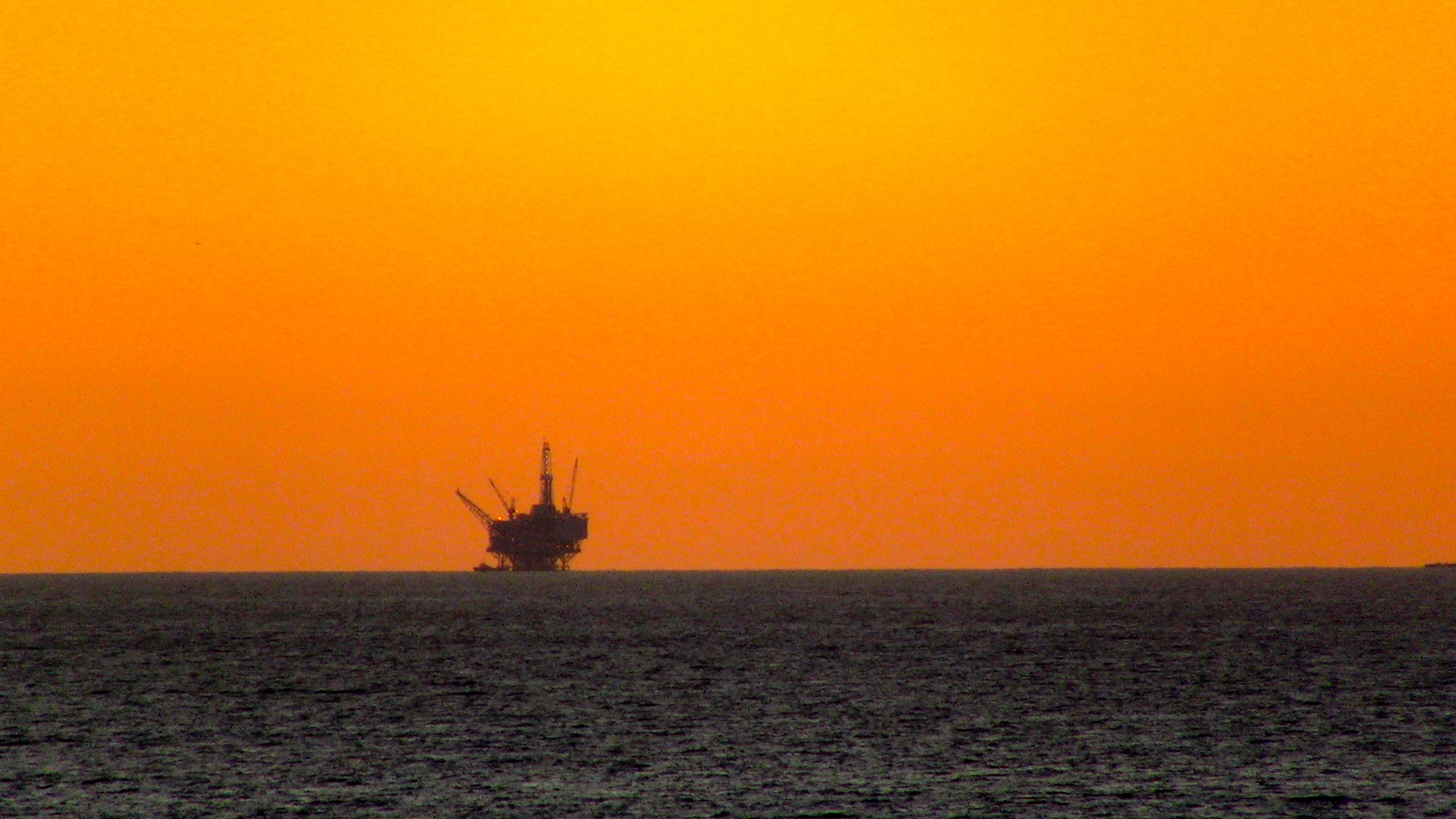 An oil drilling platform off the coast of Santa Barbara, CA - 6 December, 2011